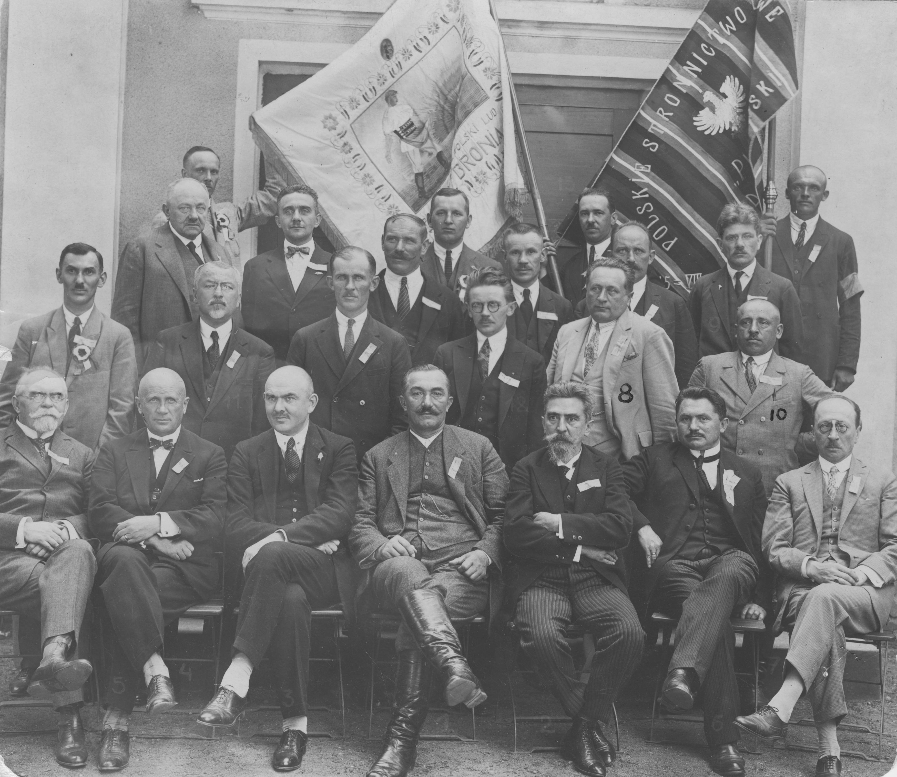 PSL "Piast" party activists. Among others: Wincenty Witos (in the middle, 1st row), Władysław Kiernik (1st from right, 1st row), Wiktor Kulerski (1st form left, 1st row), Jan Dębski (3rd from left)